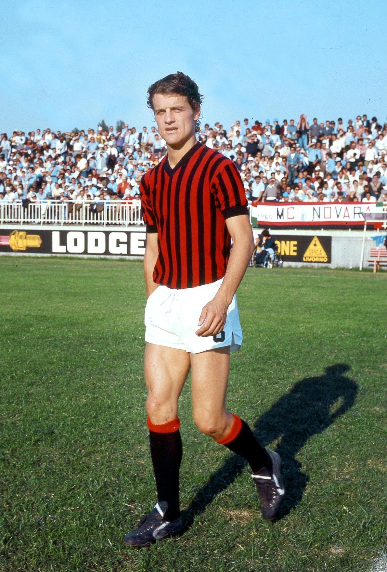 The italian footballer Fabio Capello of Milan during the 1976-77 Italian Cup match, Novara vs Milan 0-3